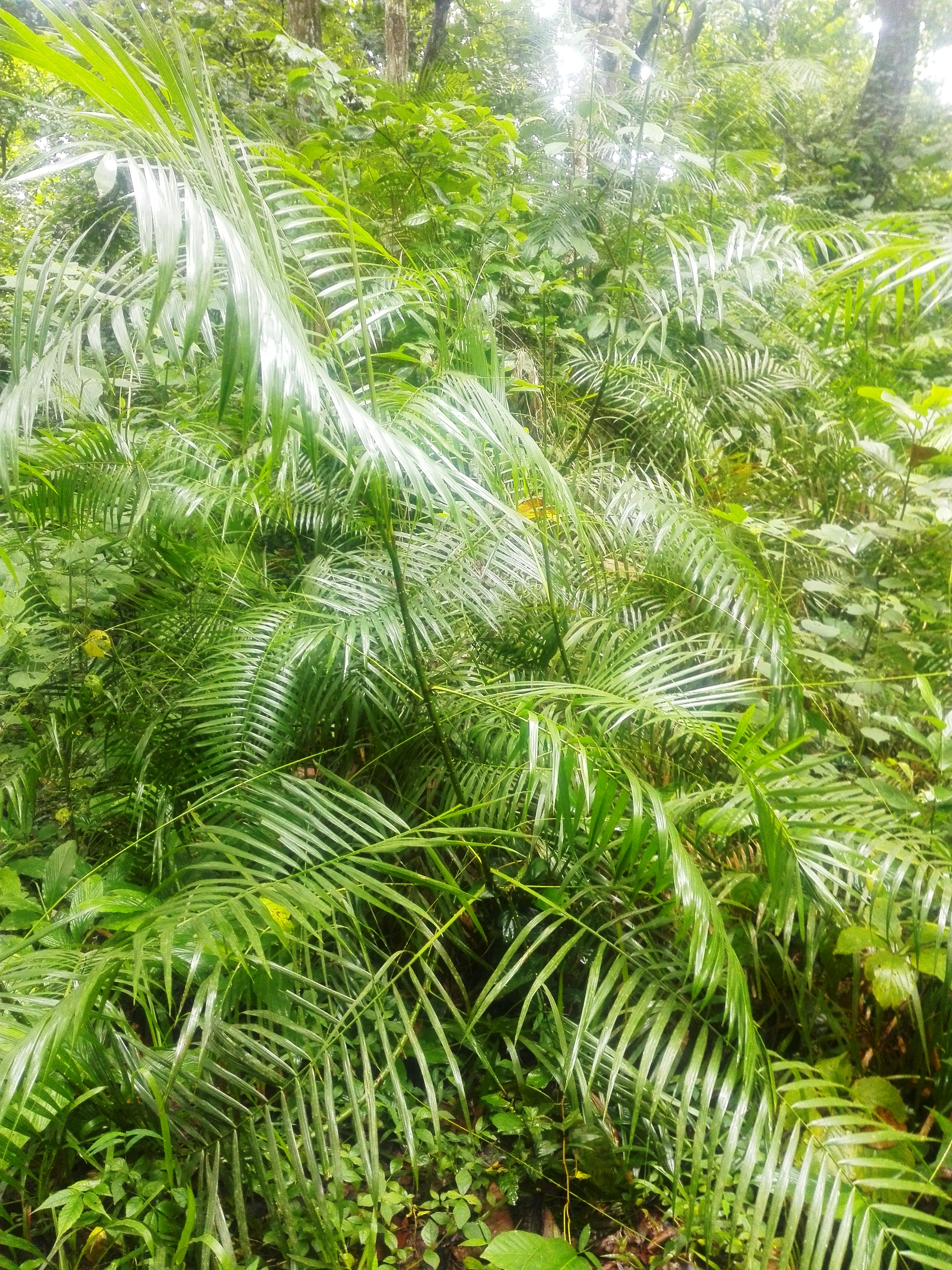 Asparagus? বেঁত গাছ, মধুপুর